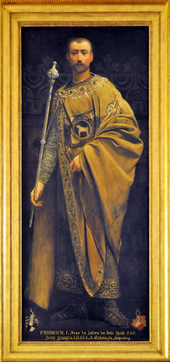 Fridrich I, Grav zu Zollern, 980 AD - Hohenzollern dinasty